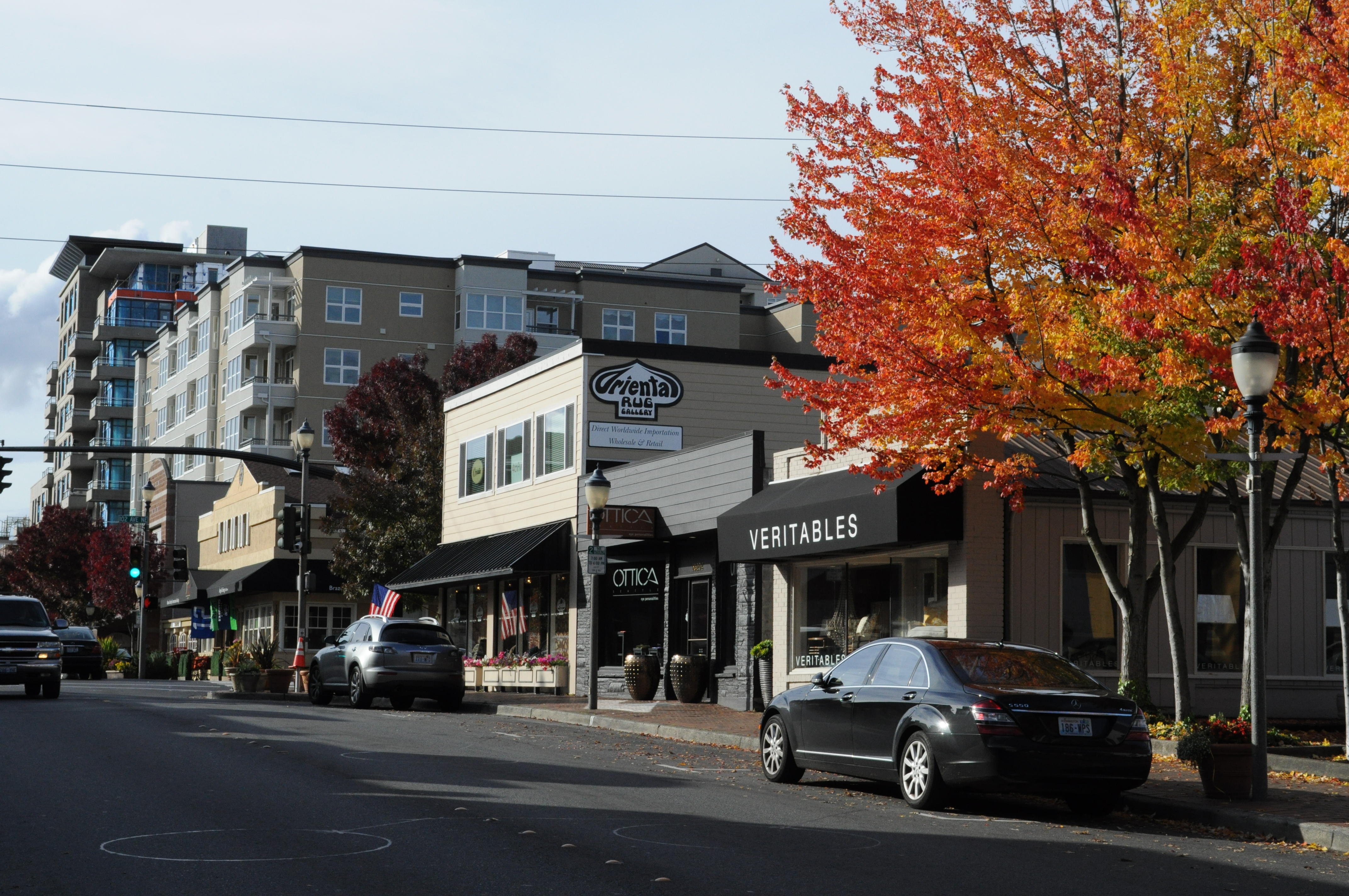 Old Main Street, Bellevue, Washington.